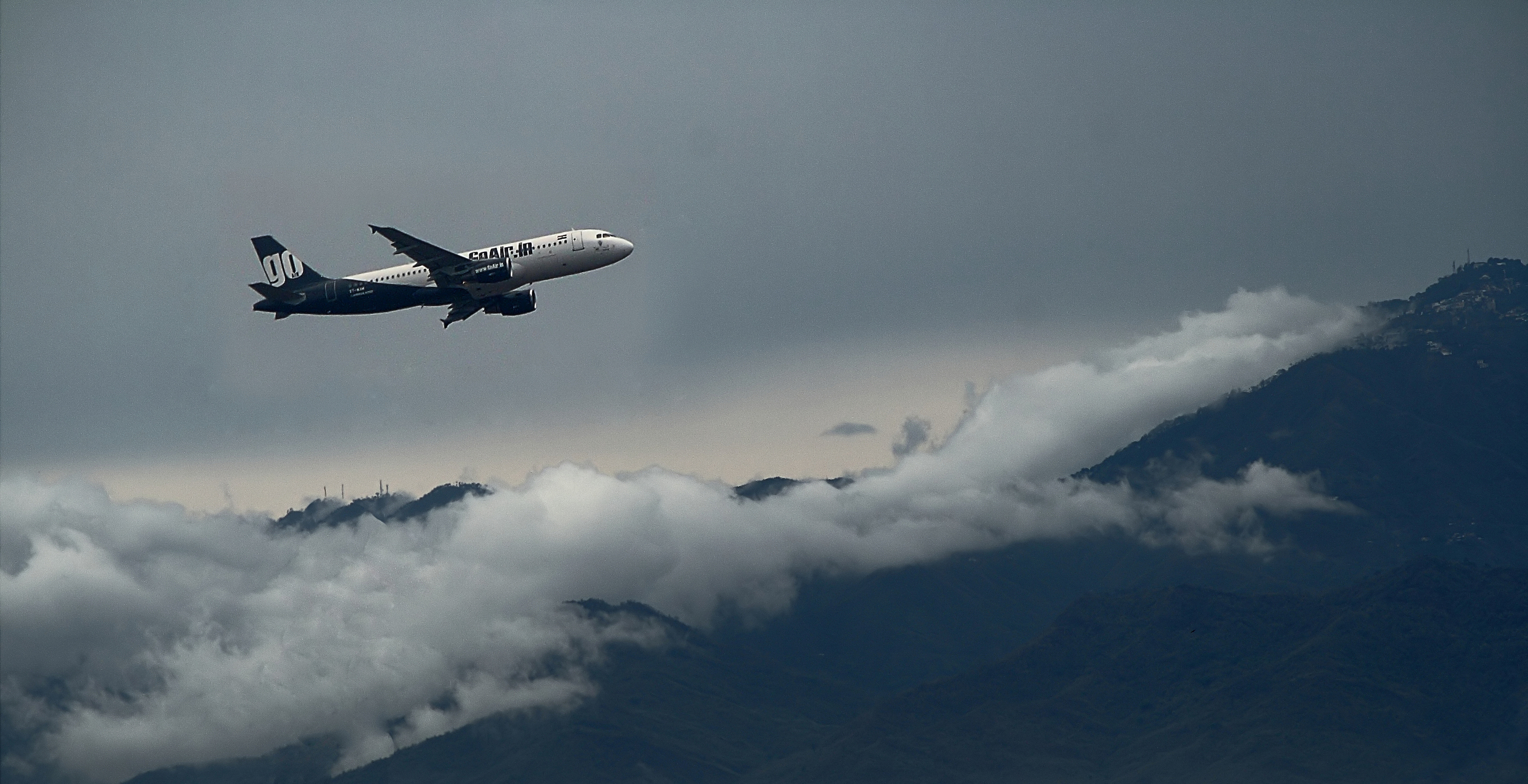 Go Air flight taking-off from Chandigarh airport